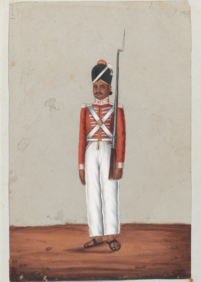 Sepoy, Madras Army, Gouache on mica by a Company artist, Trichinopoly, 1835.The Madras Army sepoy wears a uniform very similar to that worn by a British infantryman of the period, a red coatee and white trousers. By the 1820s, the latter had replaced shorts in most Indian regiments. Unlike their British counterparts, Indian infantry wore black shakos formed of pitch over rattan cane and sandals instead of boots. National Army Museum Collection, London: NAM Accession Number 1963-09-125-17